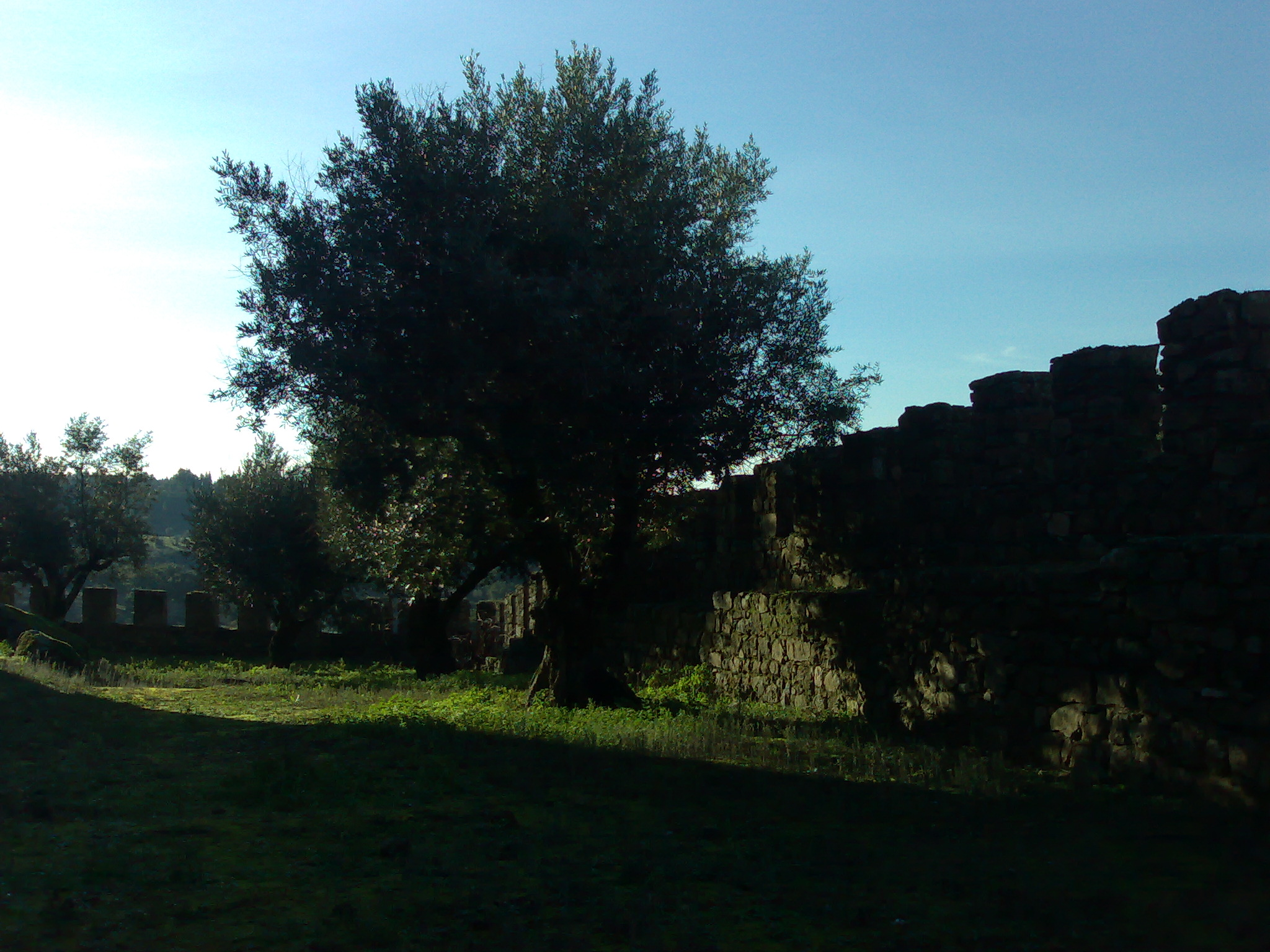 Barbican of the Amieira castle, Amieira do Tejo, Nisa, Portugal.